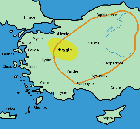 Map showing the traditional region of Phrygia and the manimum expansion of Phrygian kingdom in French. Adaptated from Image:Turkey ancient region map phrygia.jpg.